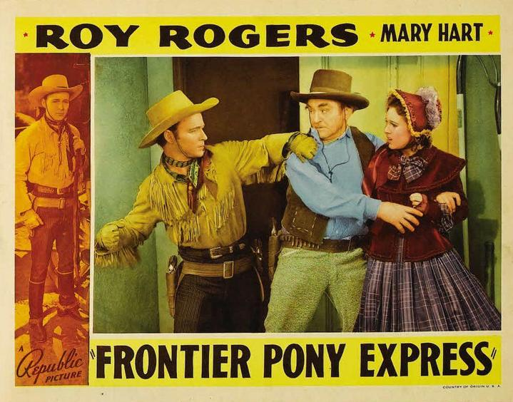 Left to right: Roy Rogers, Bud Osborne, and Lynne Roberts (aka Mary Hart) in Frontier Pony Express (1939) - lobby card (cropped)